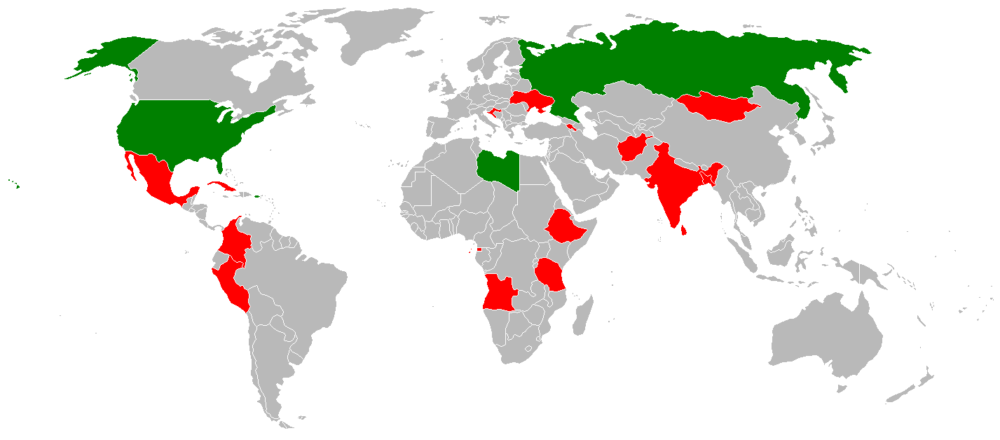 World map of Antonov An-32 operators